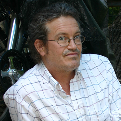 I took this photo of Cris Kirkwood in his brother Curt's backyard in Austin, Texas in May 2007.